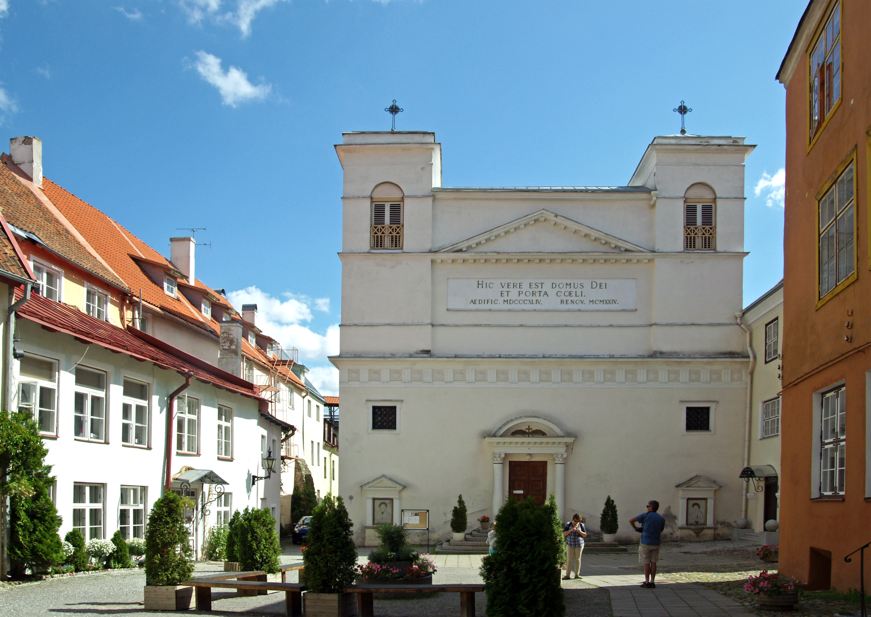 Church in Tallinn old town.